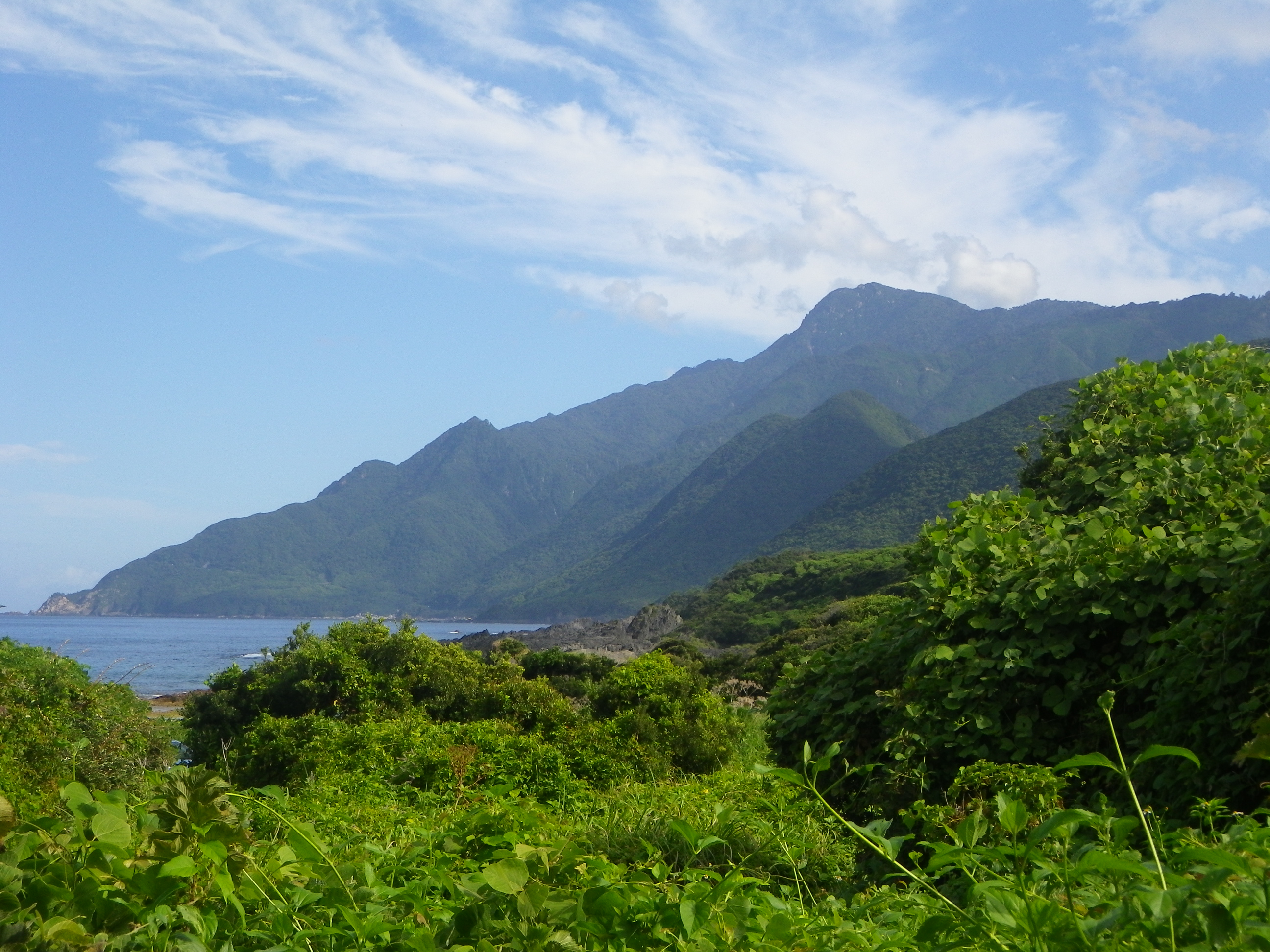 Mount Kuniwari (Kuniwari-dake) as seen from the south in Yakushima, Japan.